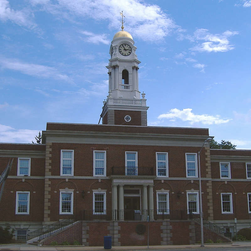 This is the old town hall building for the Town of Hempstead, New York.